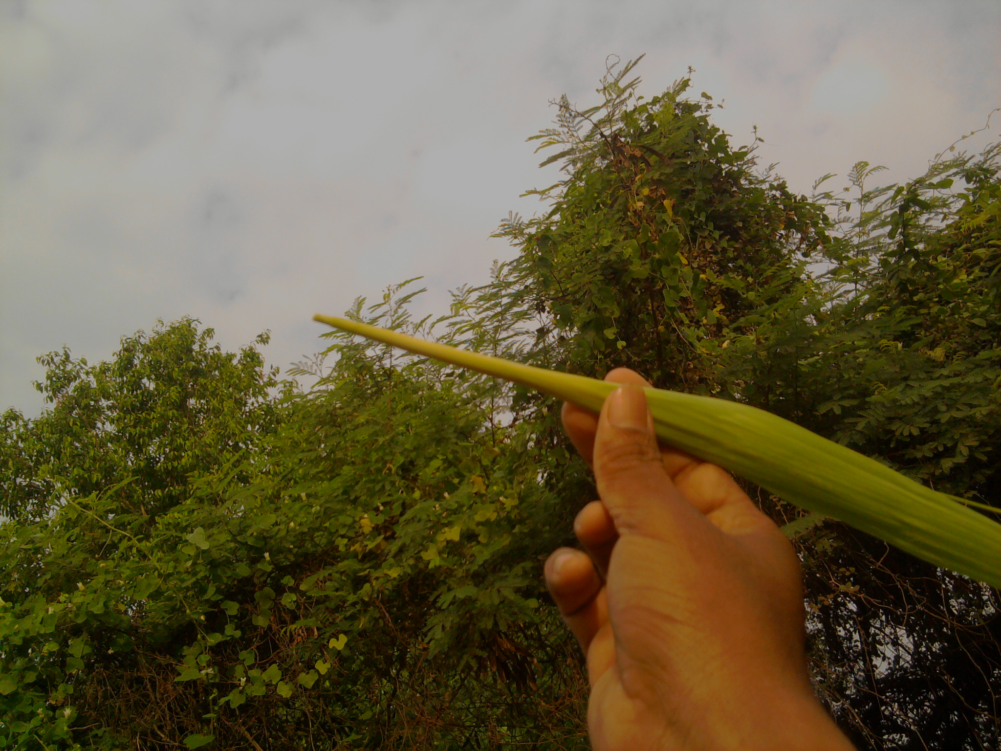 Crow Bamboo